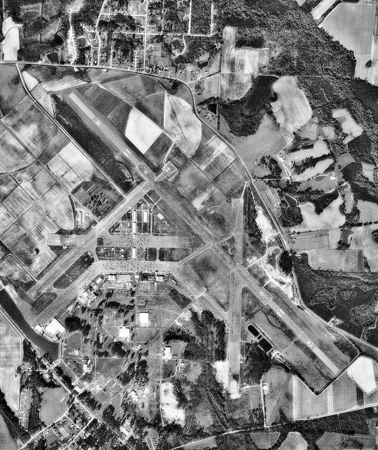 USGS digital orthophoto of Spence Airport in Moultrie, Georgia, United States